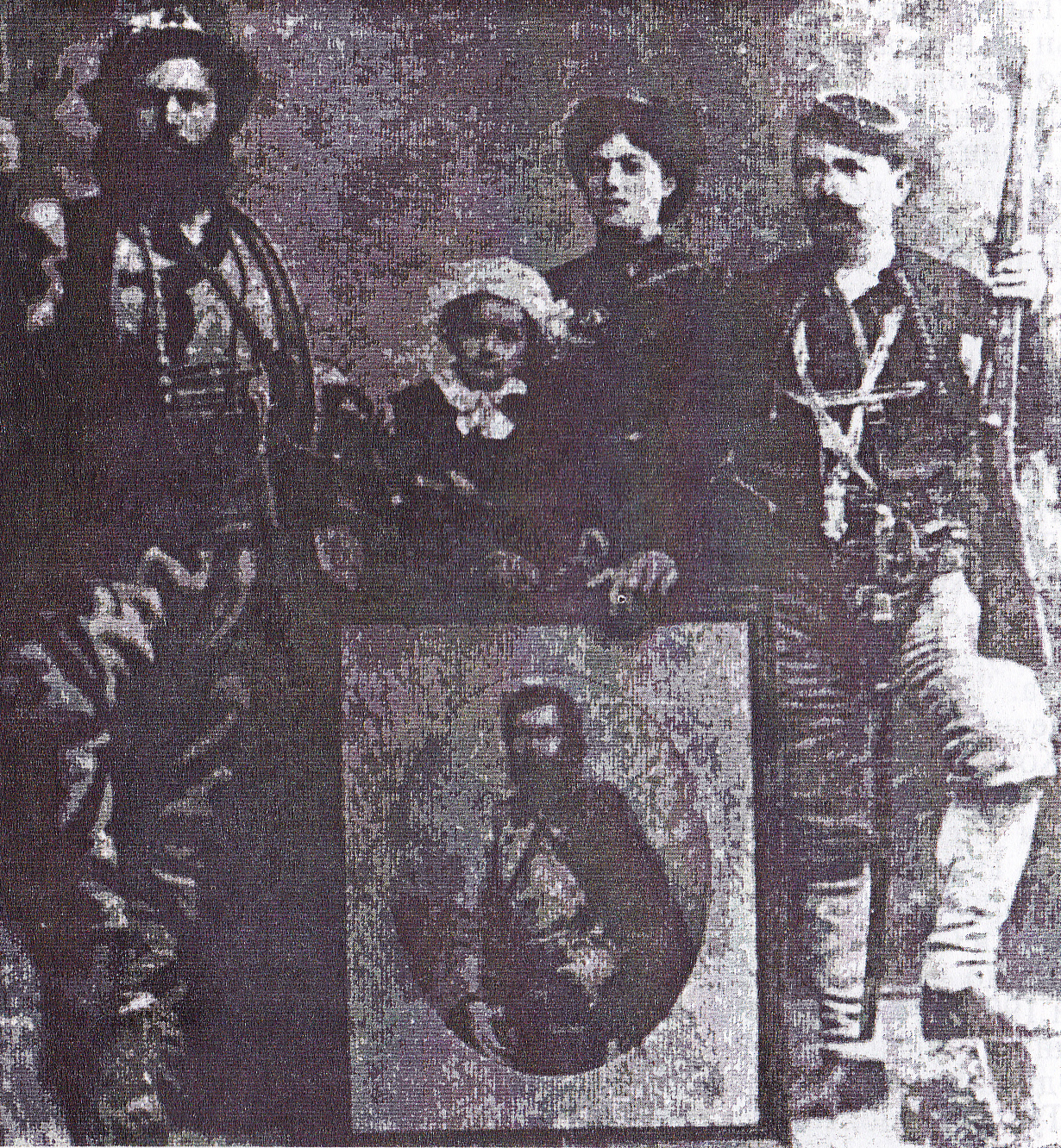 bulgarian revolutionary/ies